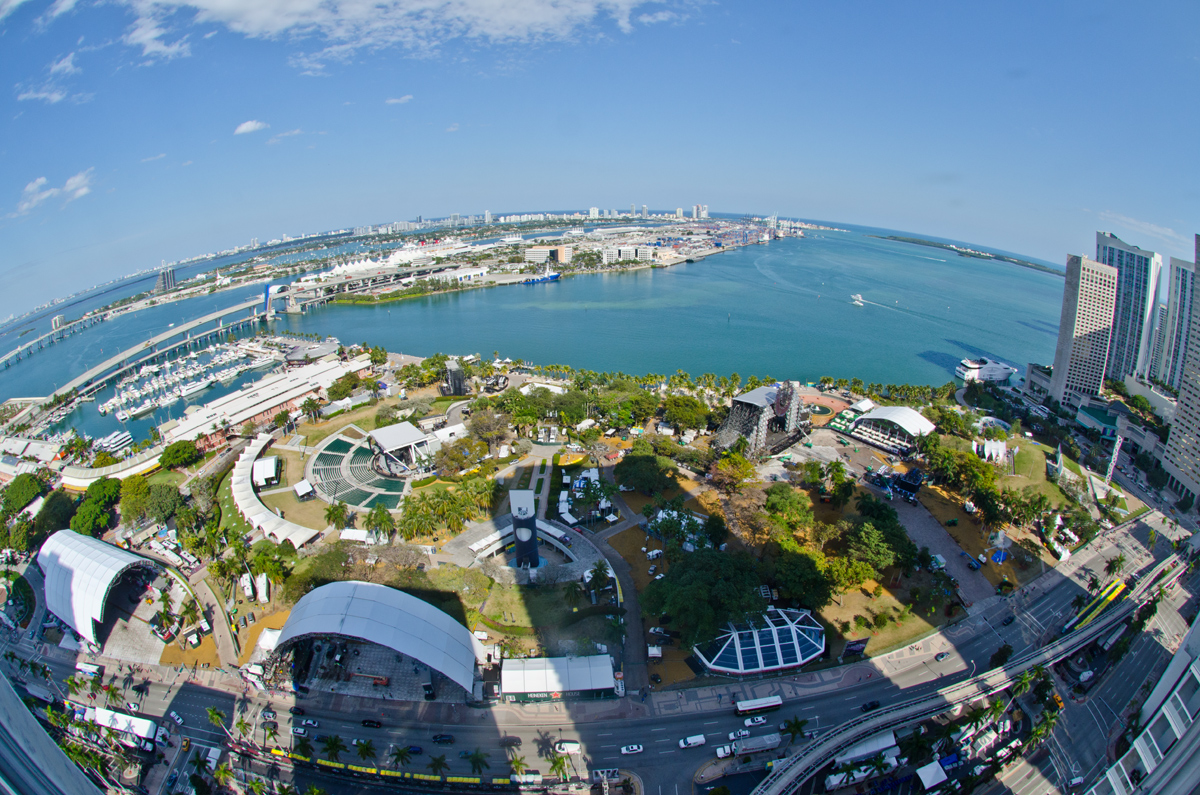 This is a panoramic view of Bayfront Park in Miami, Florida during the 2013 Ultra Music Festival. This photo was taken by Robert Giordano on Thursday, March 21, 2013, the day before Ultra's second weekend. Robert has been one of Ultra's official photographers since 2005.